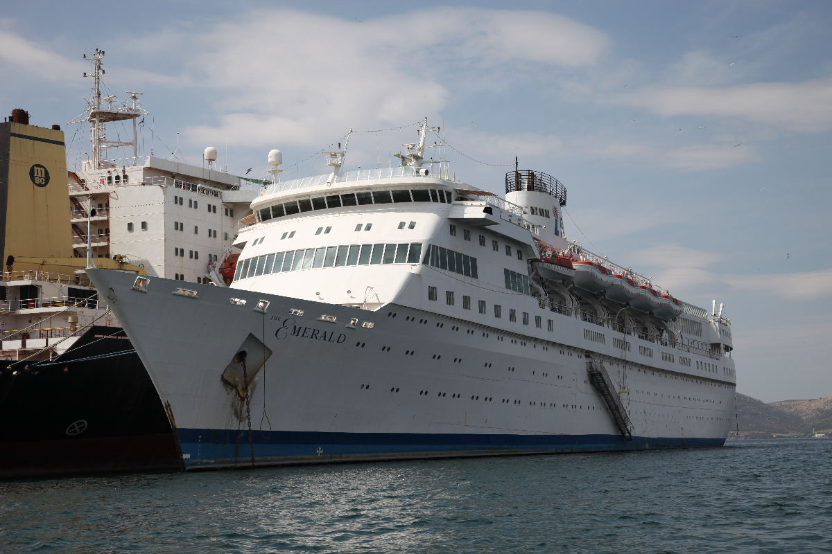 The cruise ship The Emerald in Eleusis on June 9, 2010.